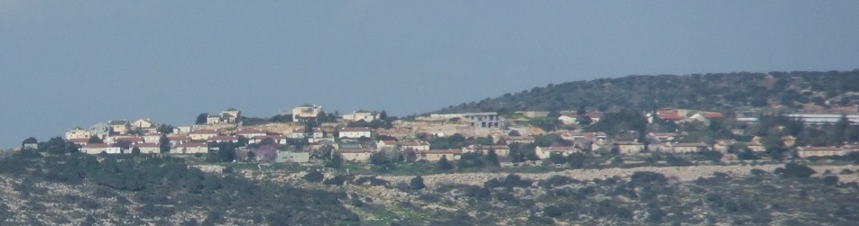 Beit Rimon taken from soth west (ancient Tzipory)